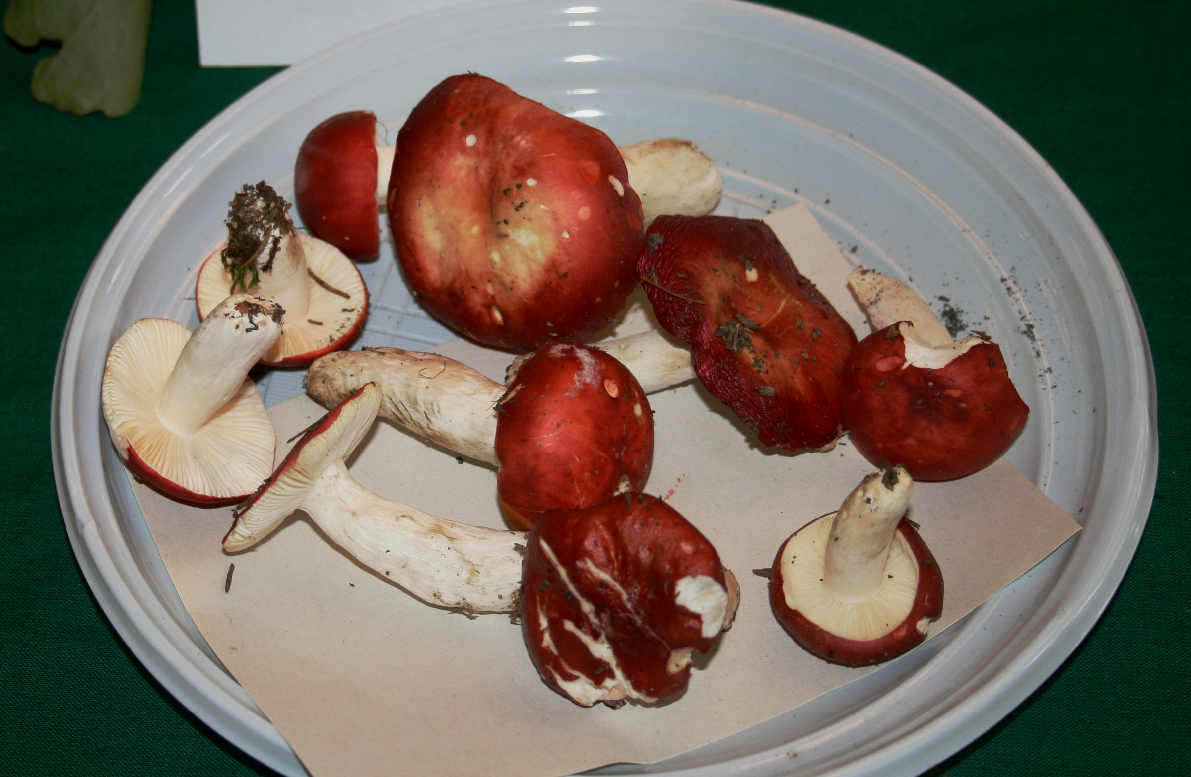 Russula emetica at the 12-th countrywide mushroom exhibition 2008, Žofín, Prague, Czech Republic